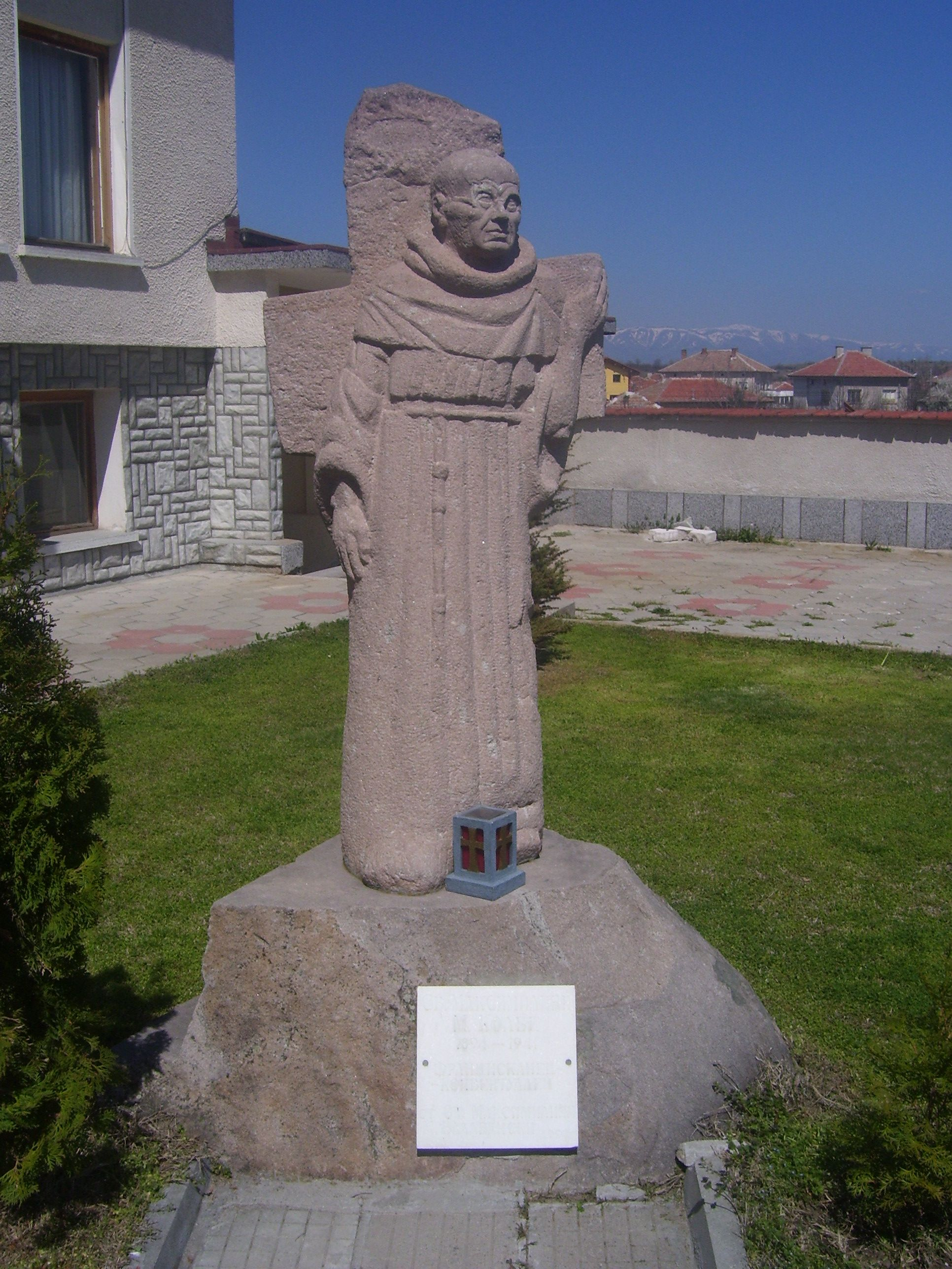 Statue of Maximilian Kolbe in Zhitnitsa, Plovdiv District, Bulgaria.